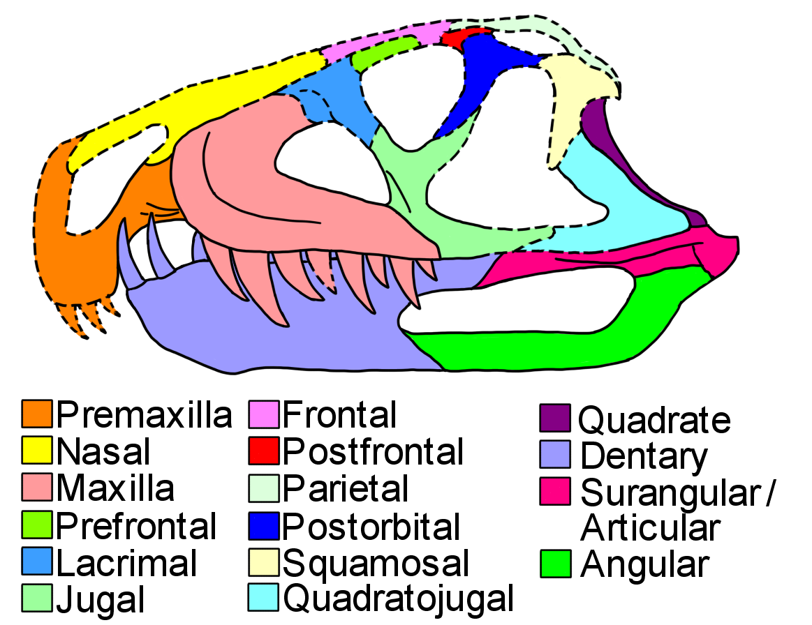 A color-coded skull diagram of Venaticosaurus rusconii, mostly based on a diagram published by Von Baczko (2018). Dotted lines indicate missing bone (i.e. the dorsal part of the skull), which has been reconstructed primarily based on Riojasuchus.